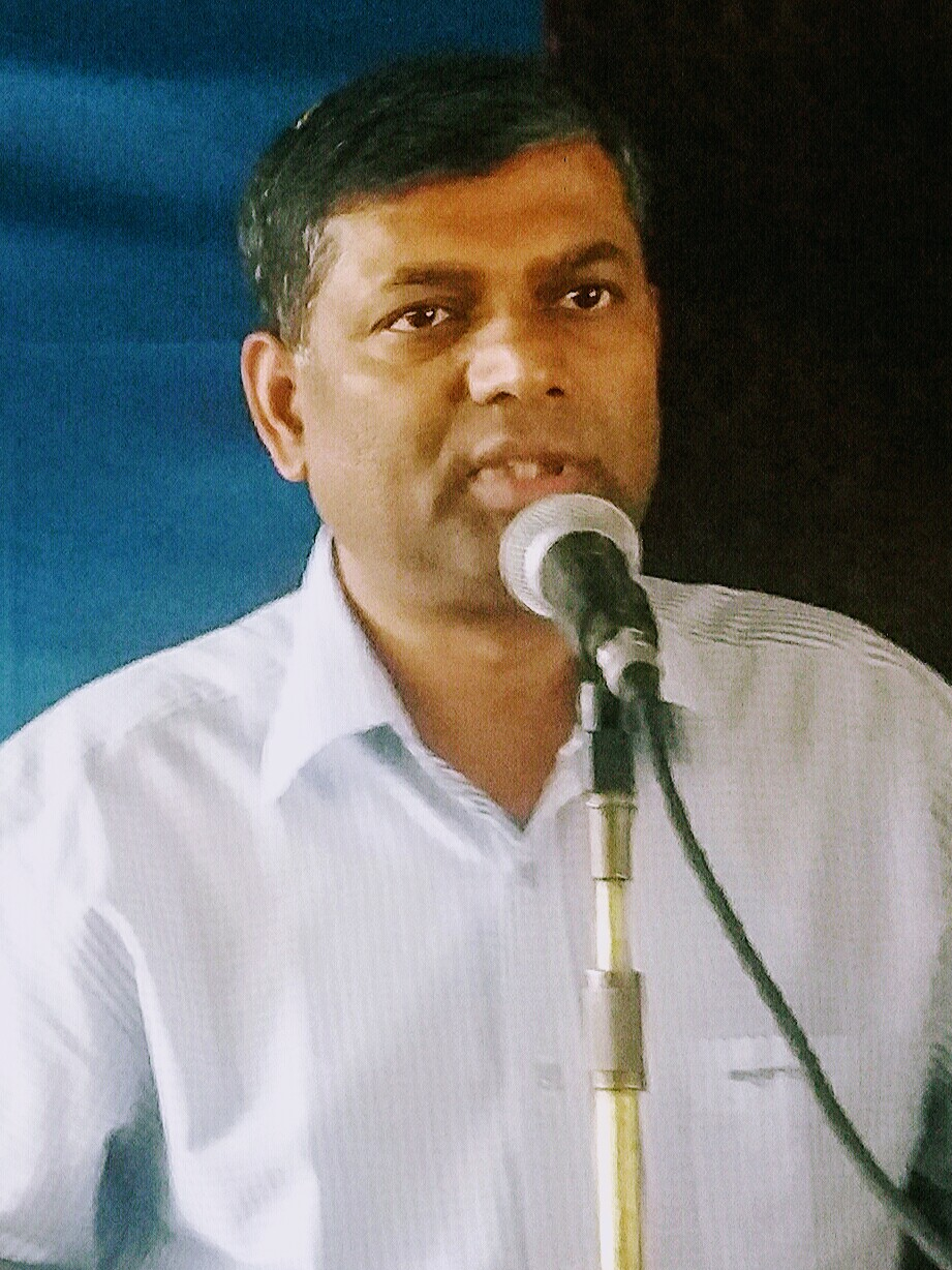 Saifuzzaman Shikhor, Current MP of Magura-1 on a program in Magura PTI in 2017